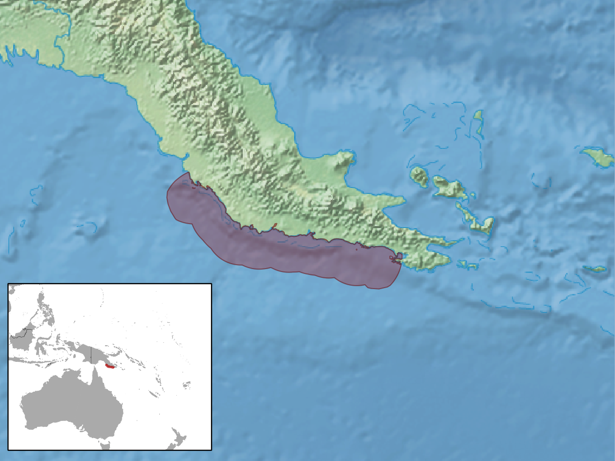 geographic distribution of Laticauda guineai